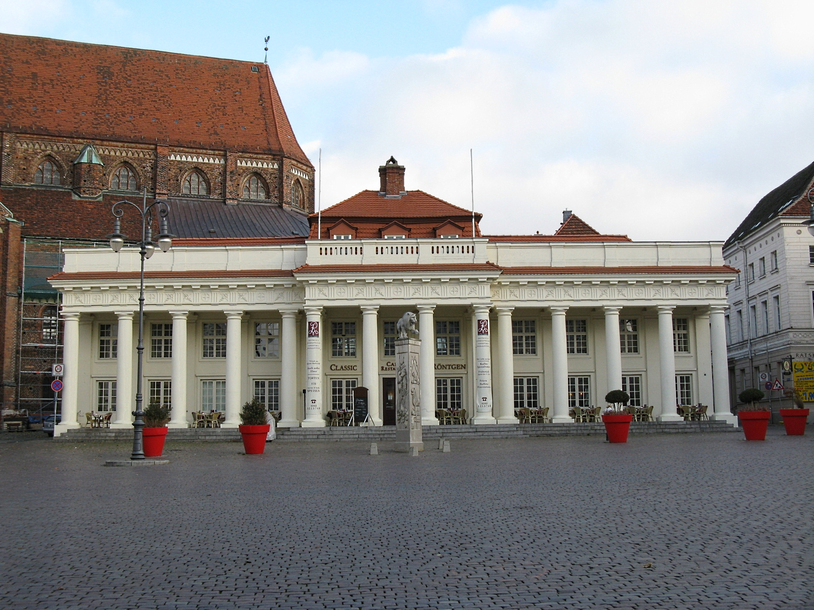 Column building at Market in Schwerin, Germany, Am Markt 1